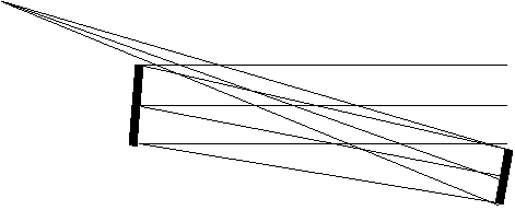 light path in yolo telescope